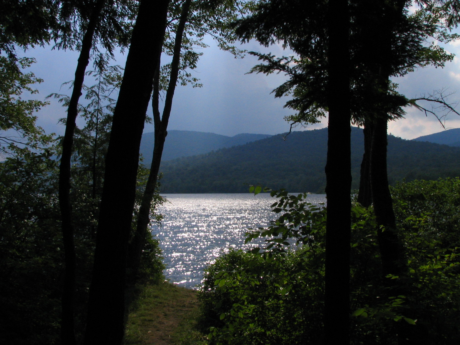 View of Lewey Lake from a Campsite. Taken by User:Mwanner, 25 July, 2006.